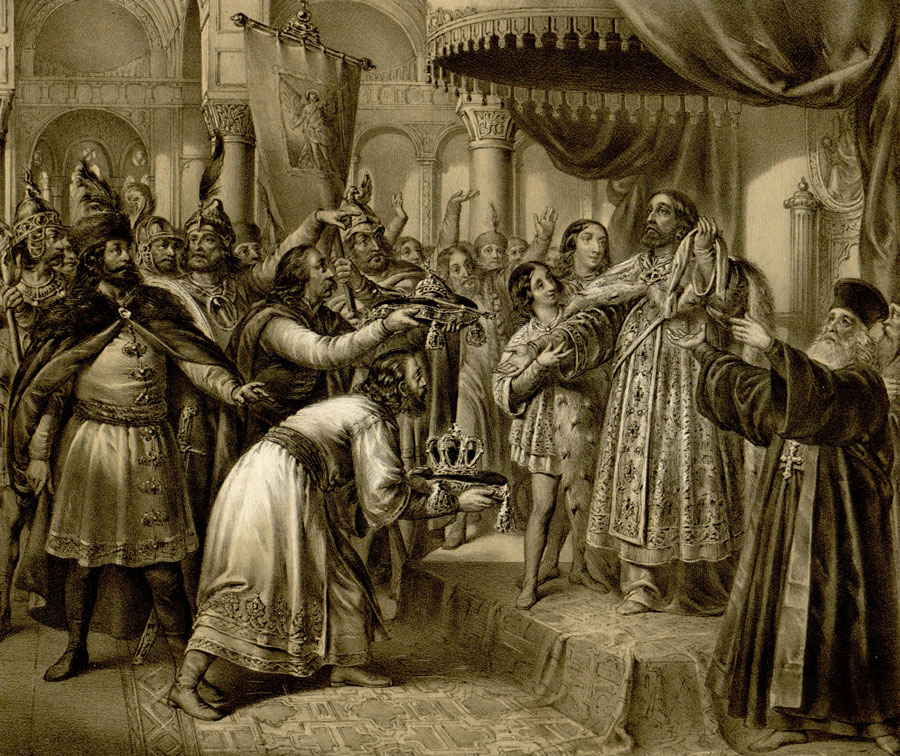 "Stefan Dečanski gaining eyesight on his coronation" — 1852 lithograph by Anastas Jovanović (1817-1899).